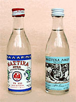 Mastichato drink from Chios